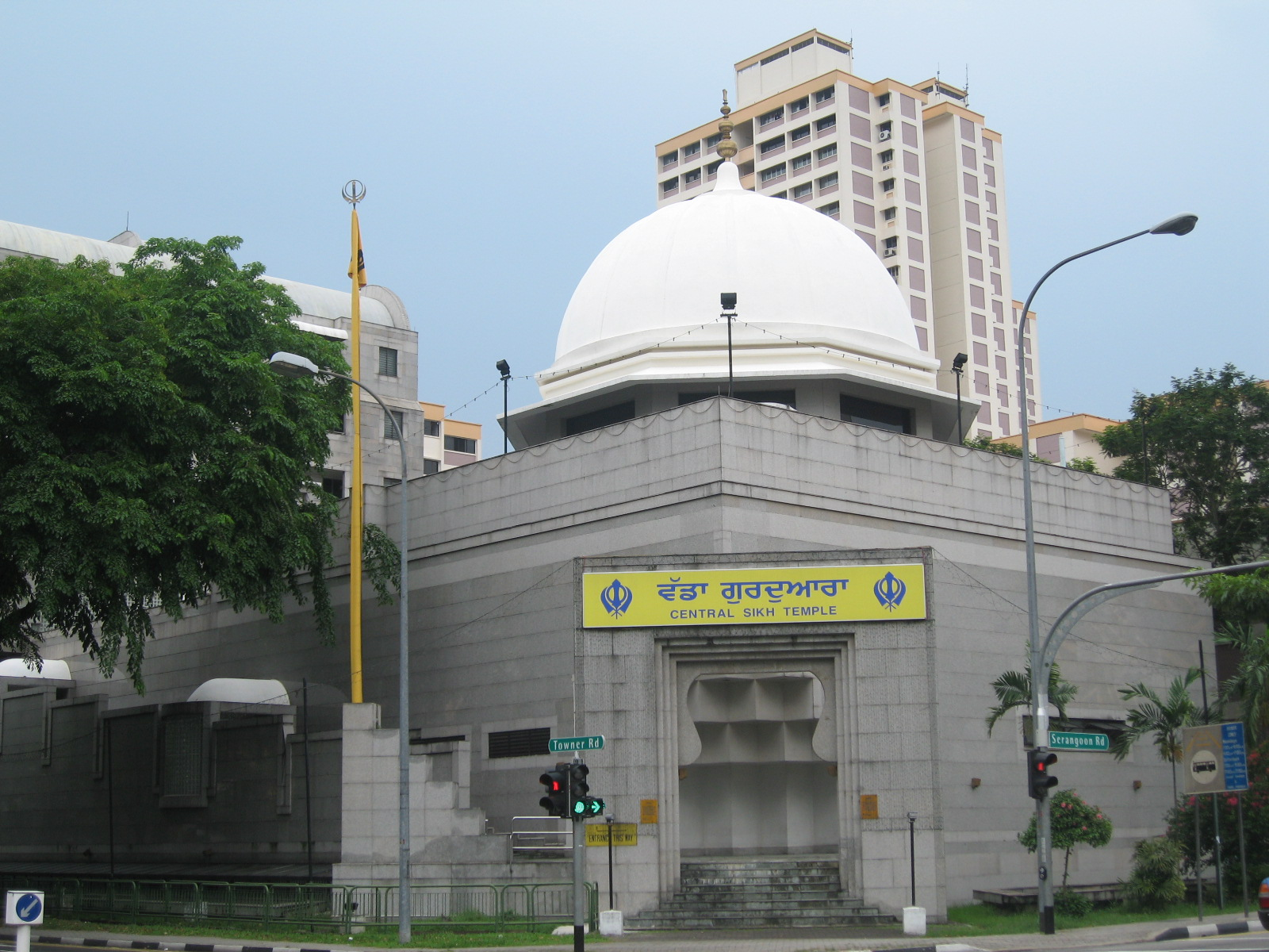 Central Sikh Temple.